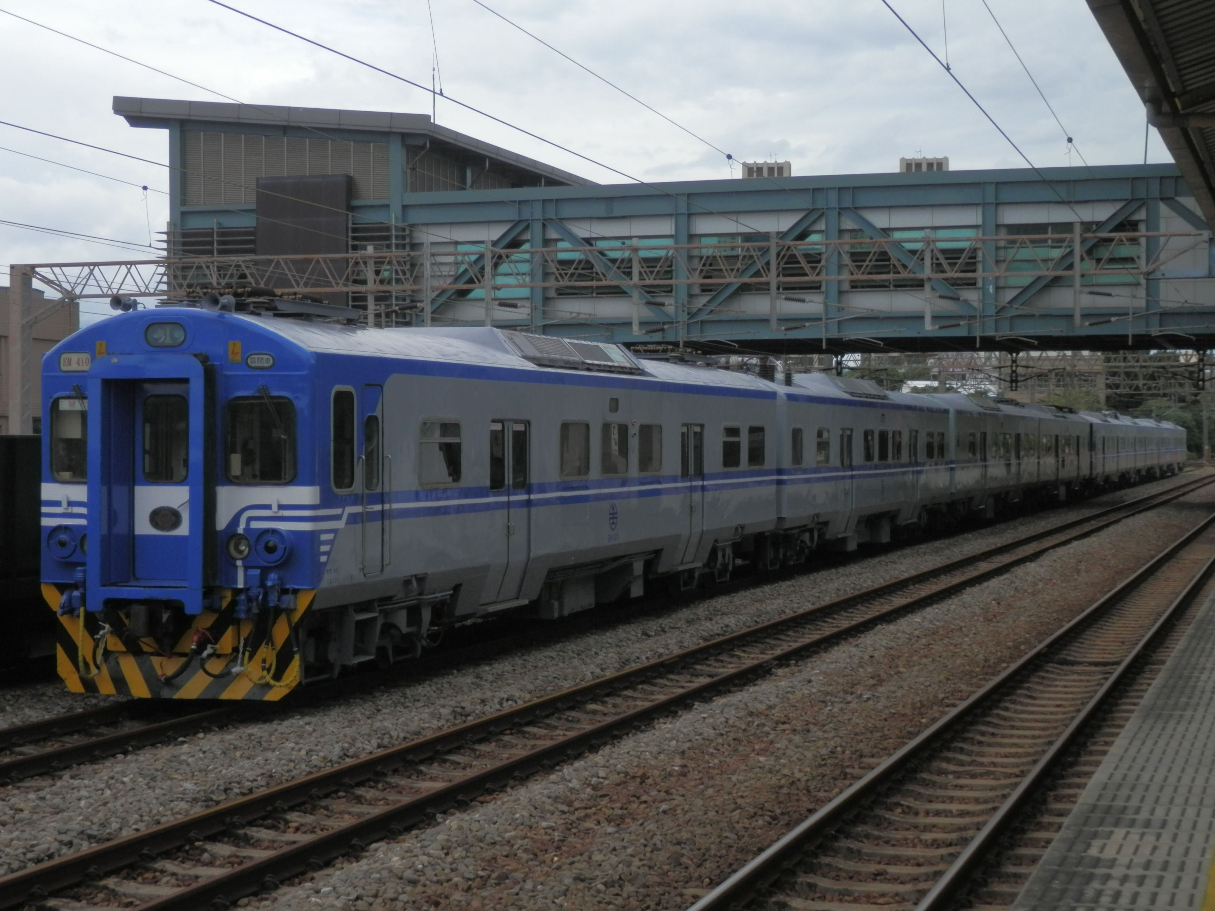 TRA EMU410 at Zhunan Station